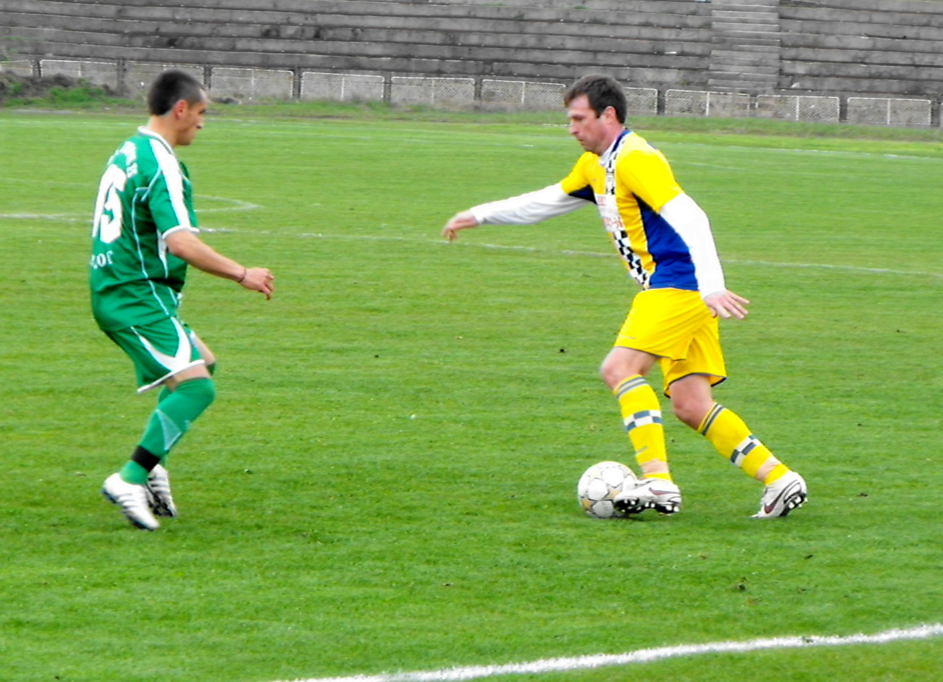 Julian Yanakiev - Bulgarian soccer player